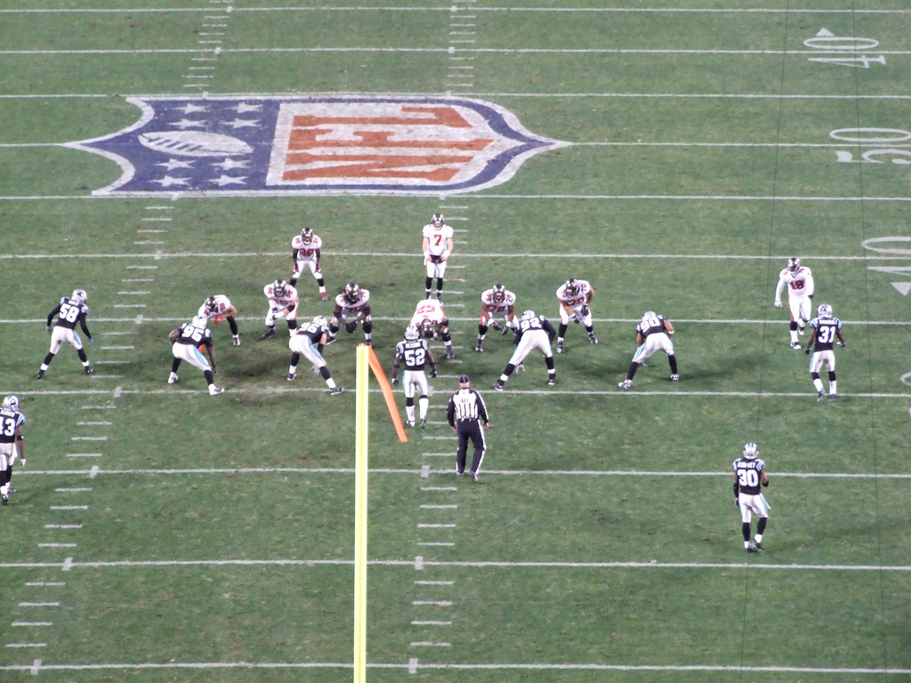 Jeff Garcia prepares to get the snap